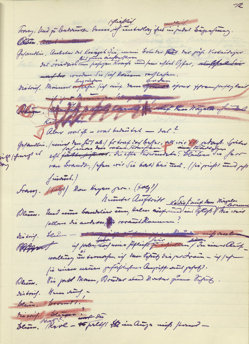 A page from Carl Sternheim’s draft from his play Das leidende Weib (The Suffering Wife), after Friedrich Maximilian Klinger